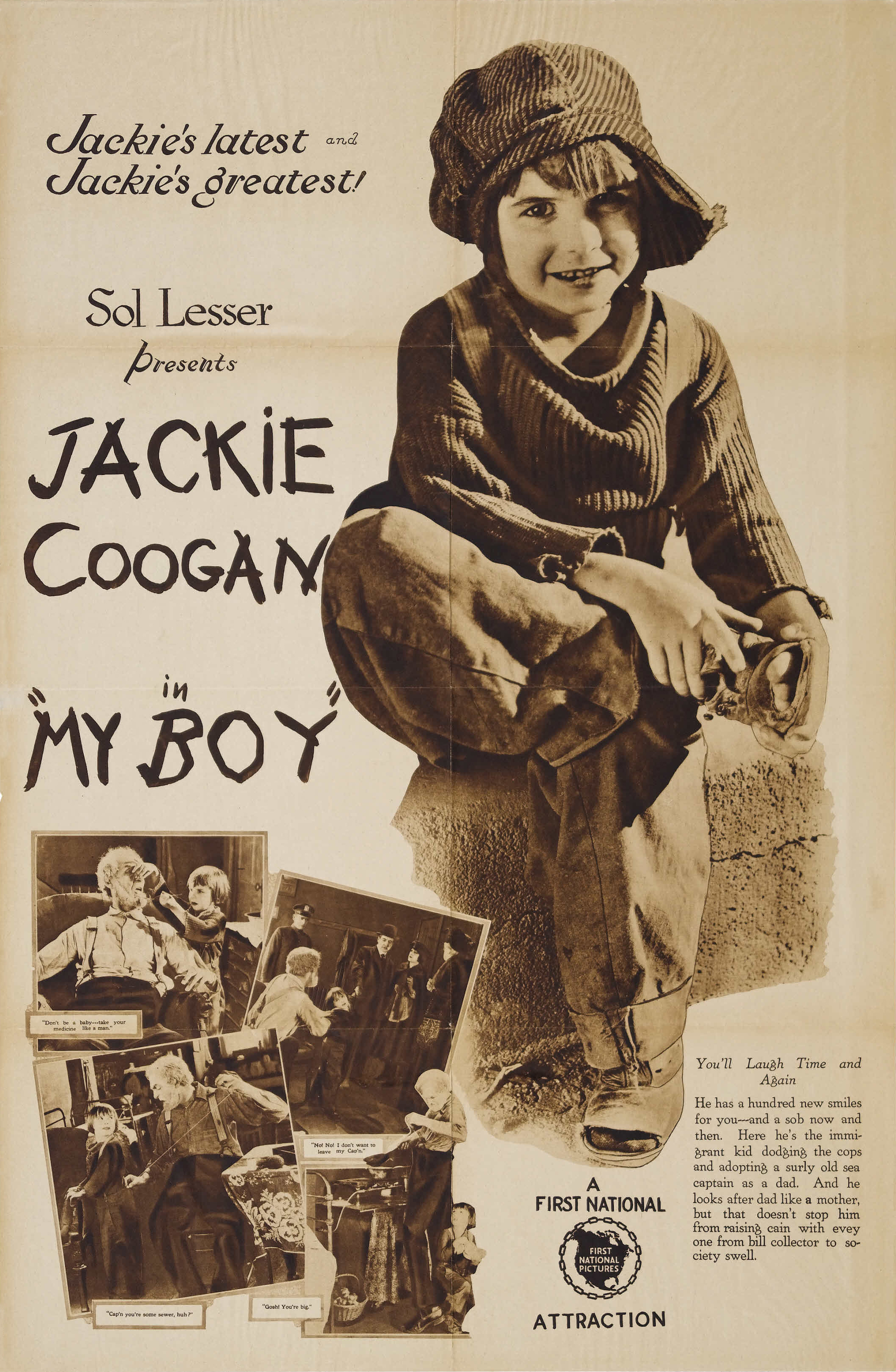 Exhibitor's mailer for the 1921 film My Boy